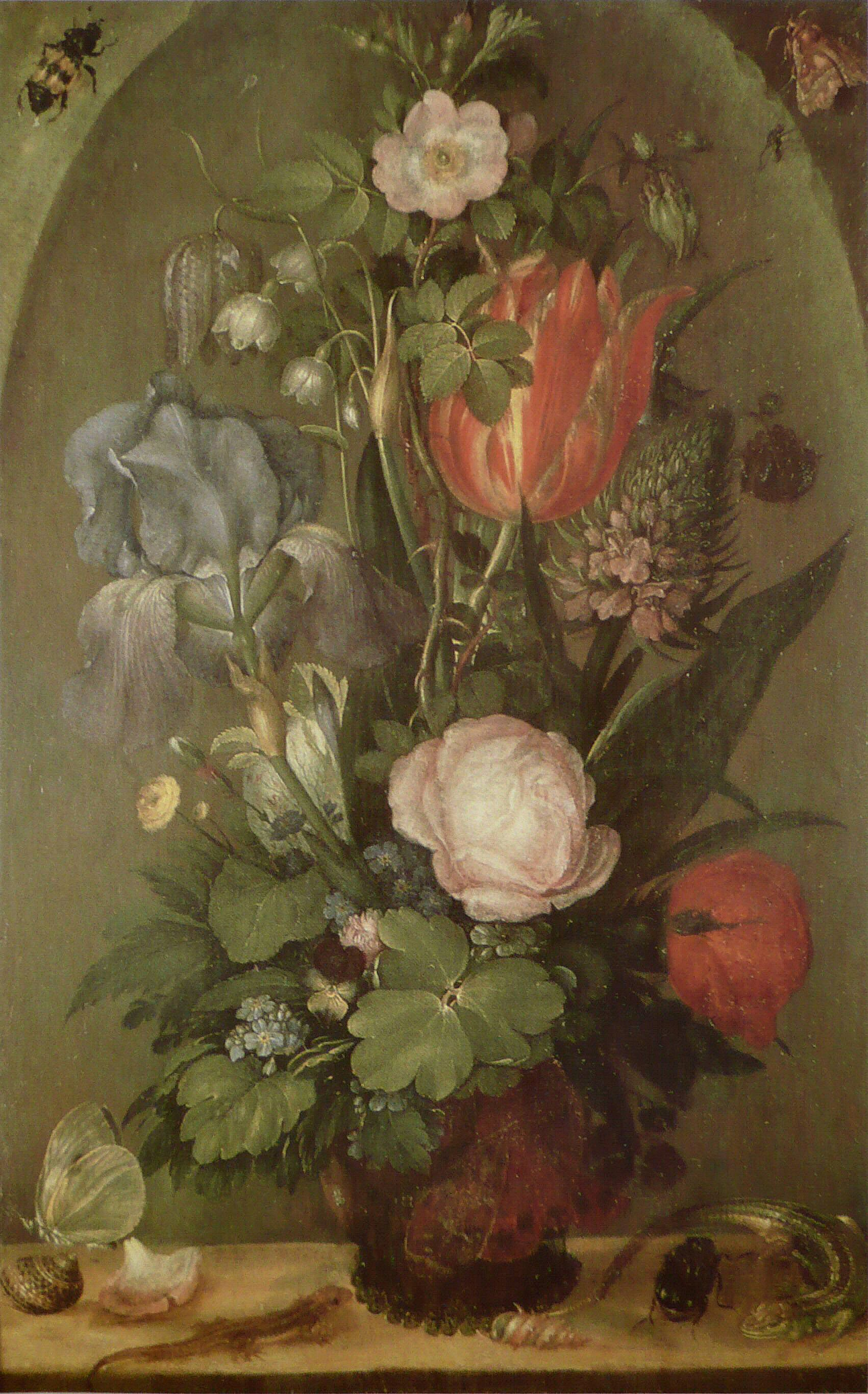 At first sight this bouquet seems to have been painted from life. However, it is composed of plants that flower in different parts of the year. The bouquet is lit from different angles, so that more depth is created. The colors are bright and light. Until 1982 the date was read as 1601 or 1604. In 1982 Segal was the first to read it as 1603.